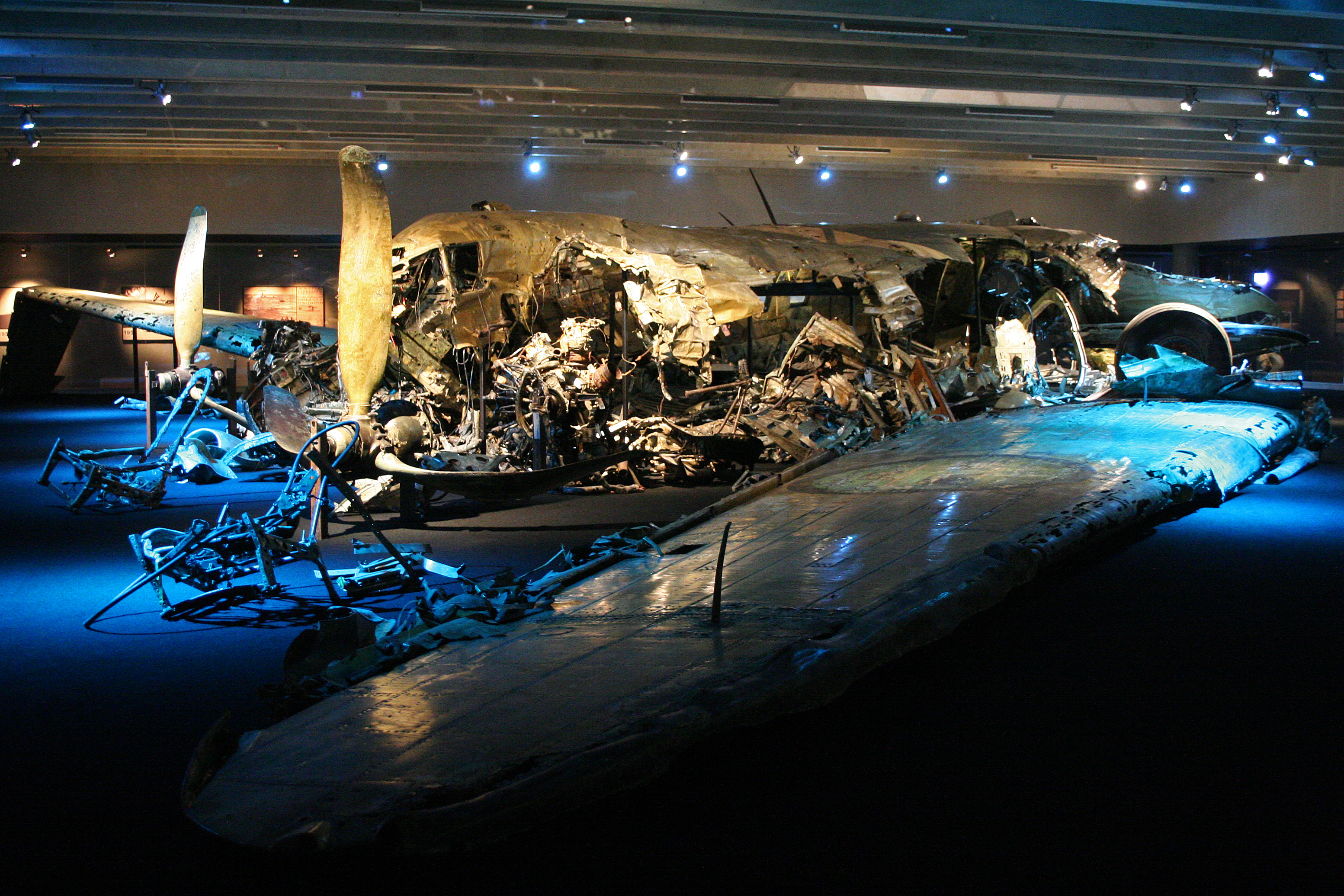 Underneath the cold war hall is a further display hall containing the wreck of this C-47 Dakota, msn 9001. Originally '42-5694' and later 'SE-APZ', it then became '79001' with the Swedish AF. On 13th June 1952, while on an ELINT mission, it was shot down by Soviet MiG-15 fighters. The surprisingly complete wreck was located in 2003 and recovered in 2004. It went on display in 2010. It is extremely well presented. This view shows the overall wreck, with the port wing inverted in the foreground. The Swedish roundel can still be seen. Flyvapenmuseum, Malmen, Sweden. 04-06-2012